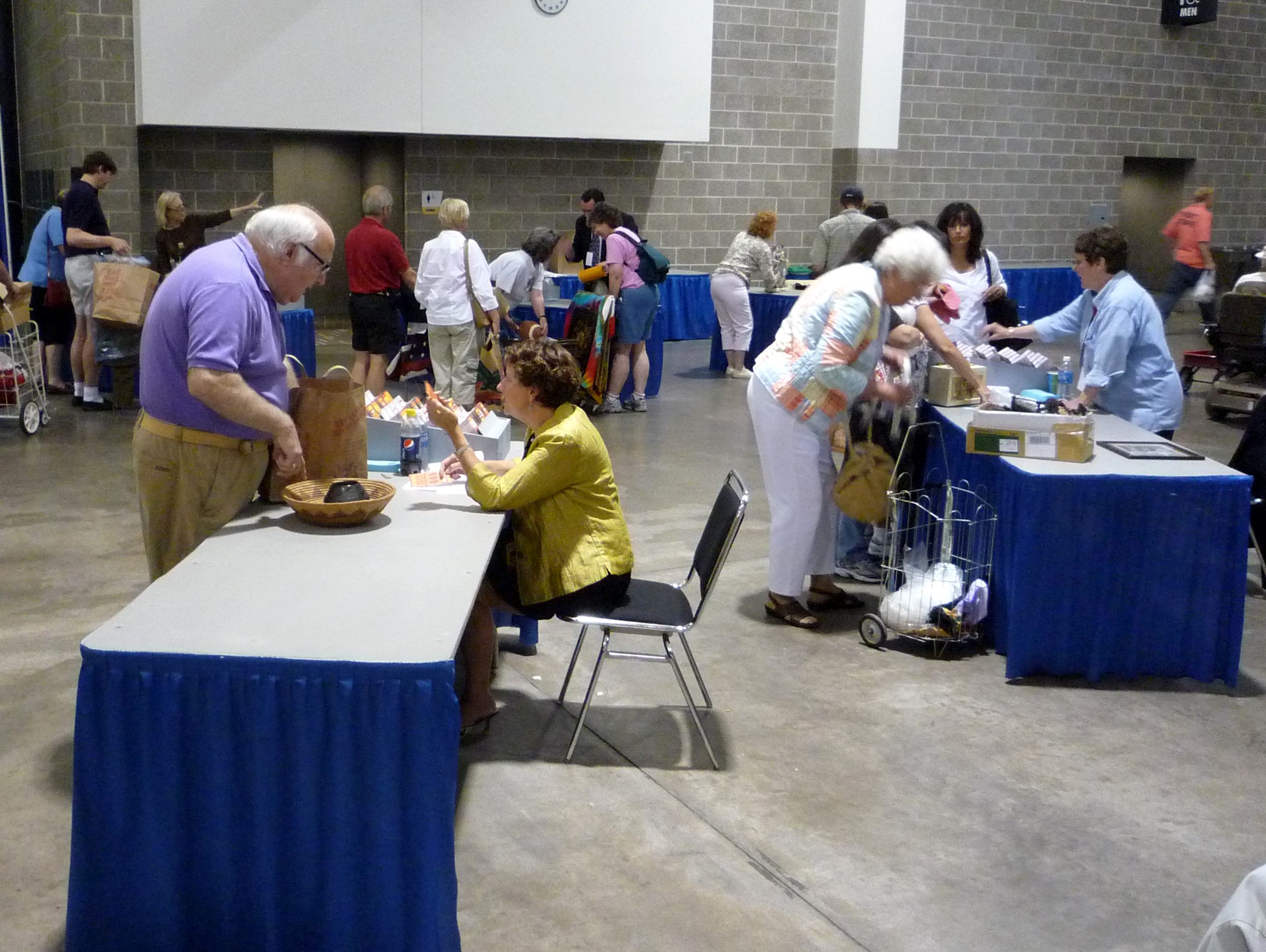 Before ticketed guests have their items appraised on Antiques Roadshow, they first visit the "general appraiser" tables who quickly examine the items (2 per guest) and assign them a ticket to a specific expert (i.e. "Paintings", "Asian Art", etc) in the recording area, Madison, Wisconsin, USA.